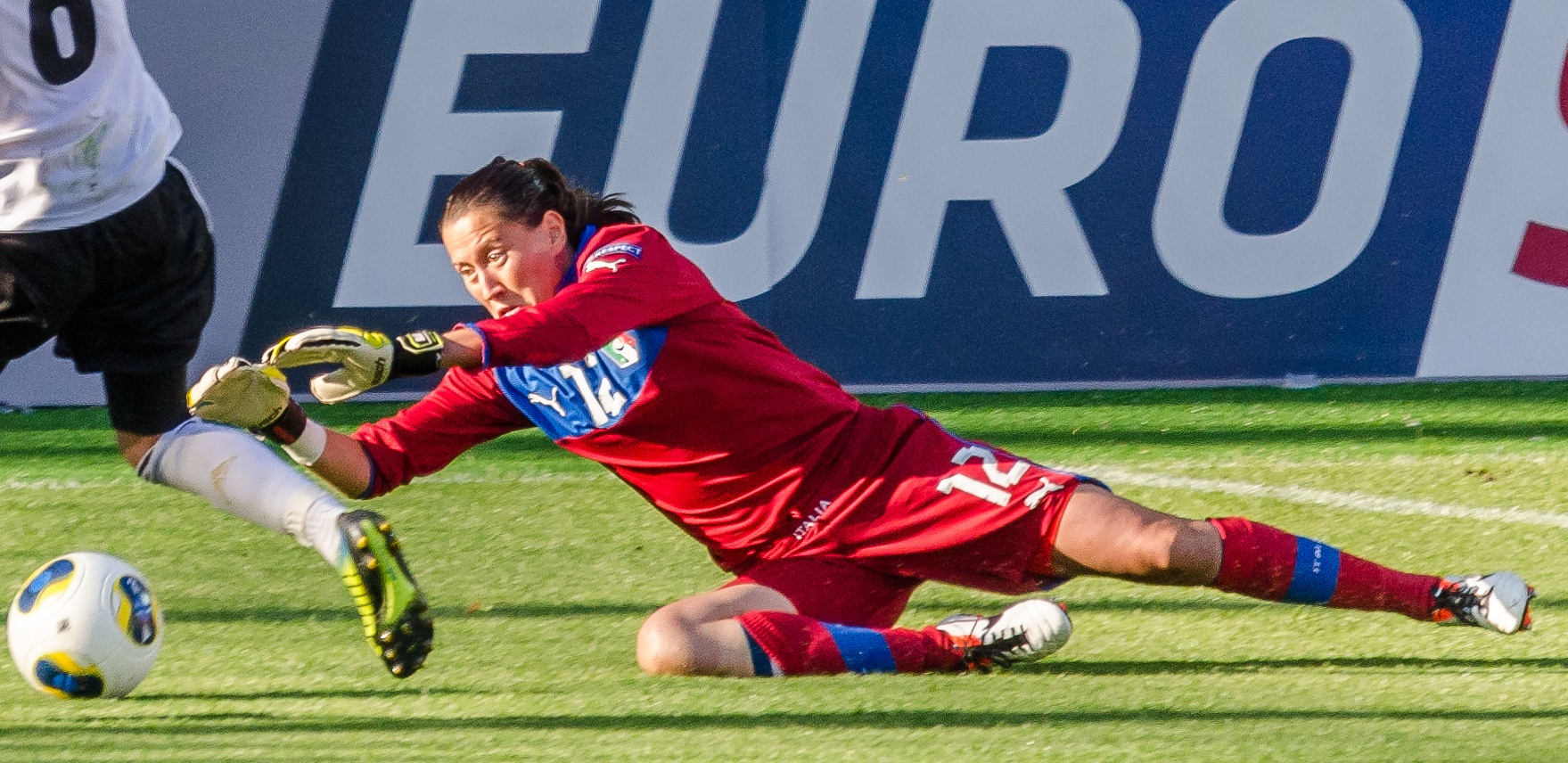 Italian football goalkeeper Chiara Marchitelli playing the Quarter final against Germay in the UEFA Women's Euro 2013 at Myresjöhus Arena in Växjö.